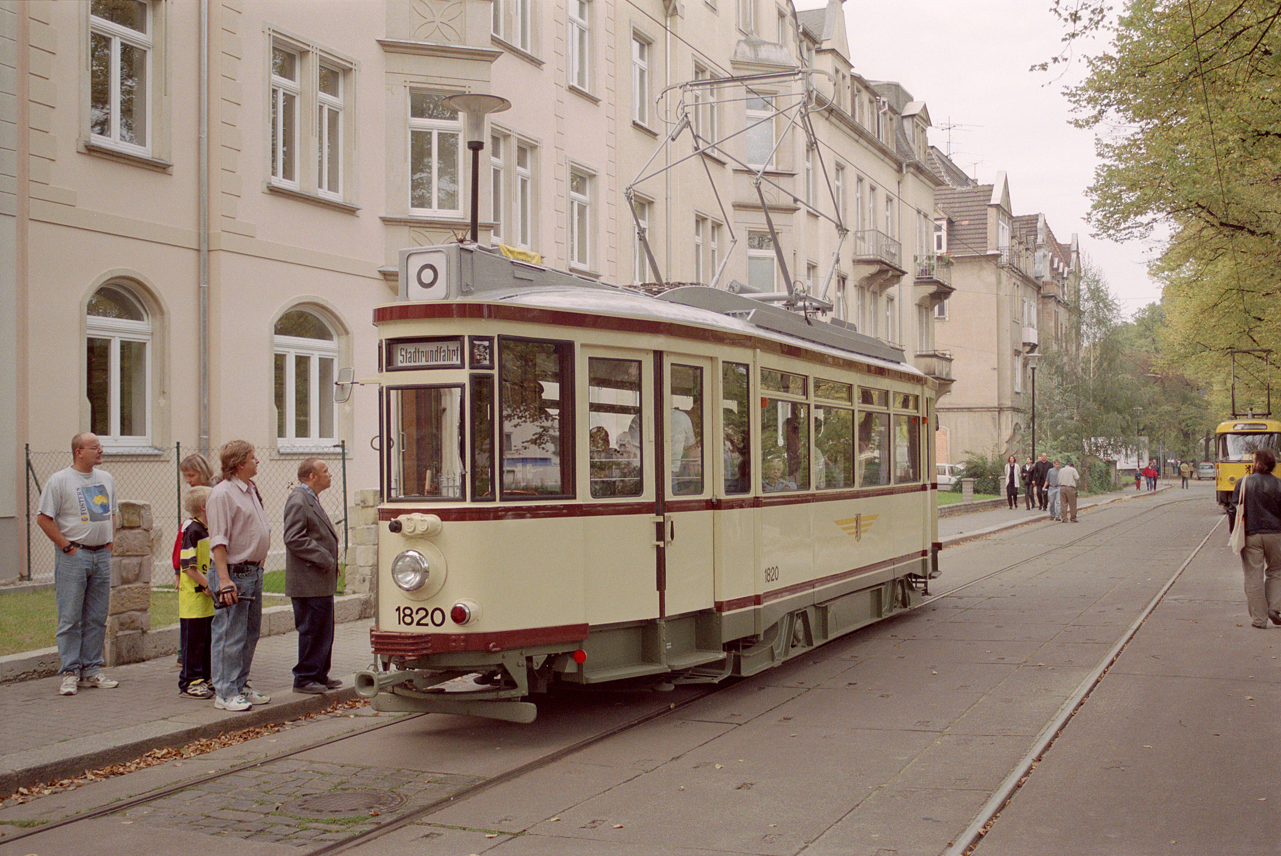 old tram called "Kleiner Hecht" own picture, taken in late summer 1998 in Dresden